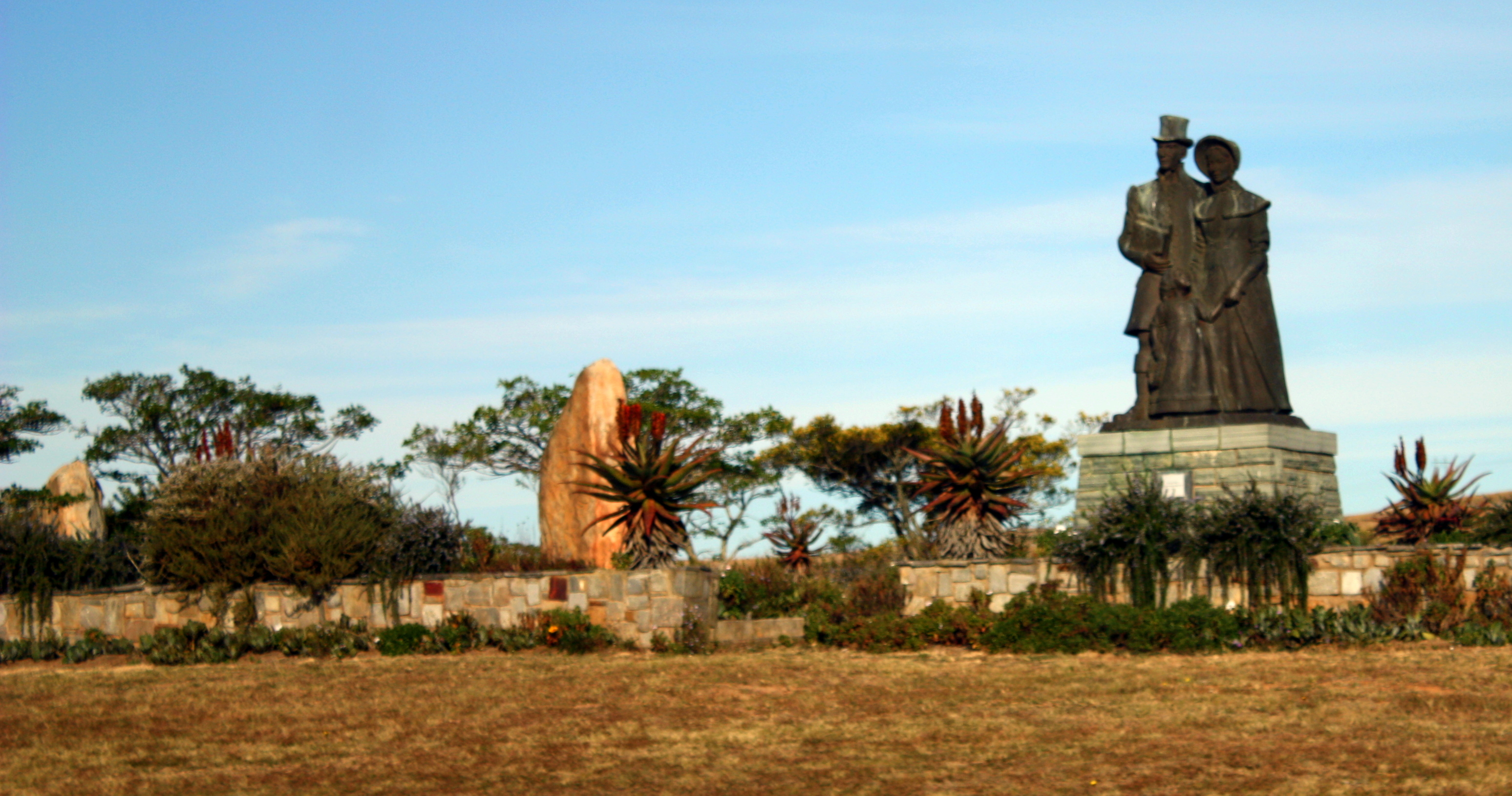 Grahamstown